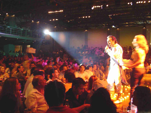 Notis Sfakianakis, greek singer at bouzoukia club singing